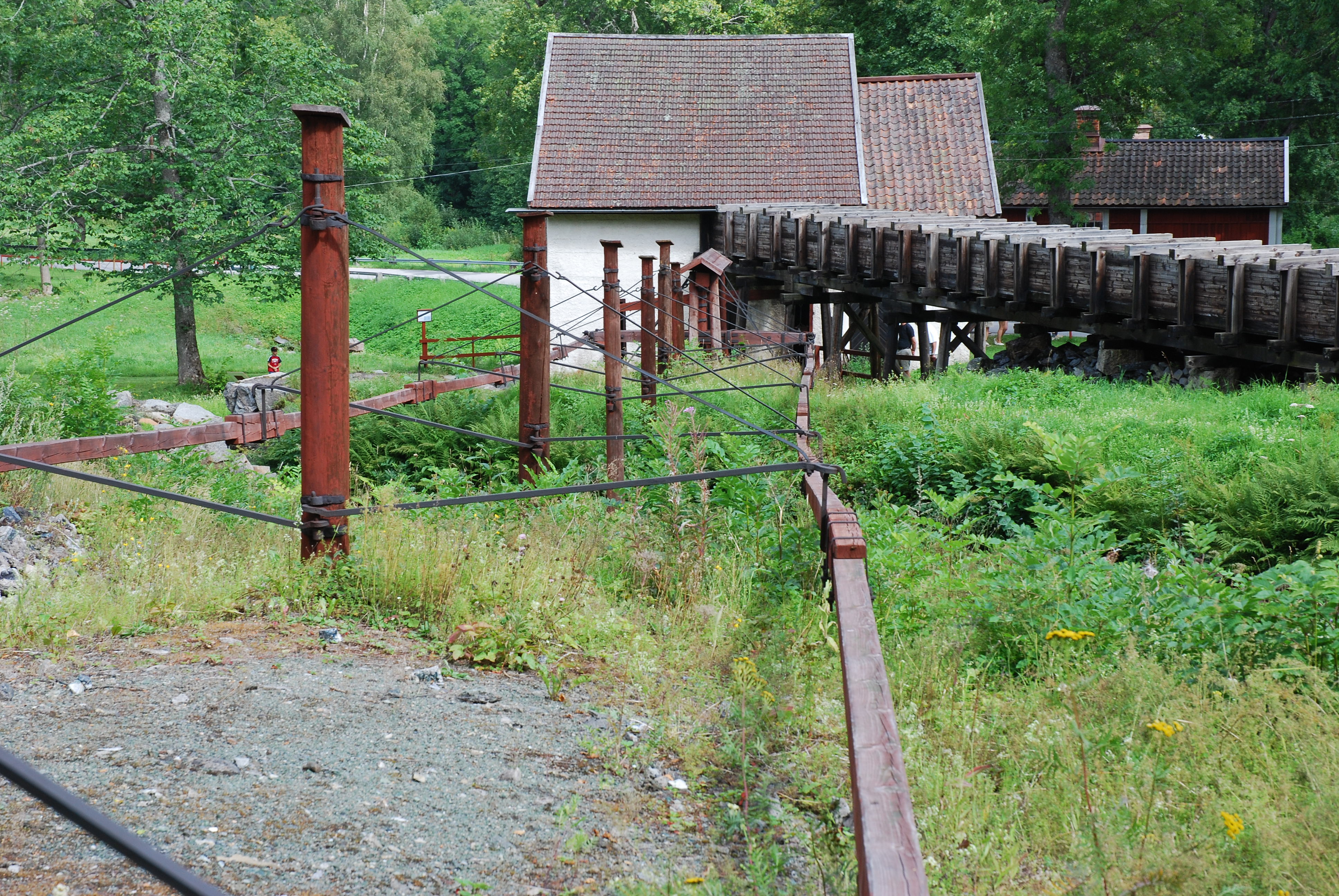 Wooden rods transmission and water wheel house at Pershyttan, Nora, Sweden